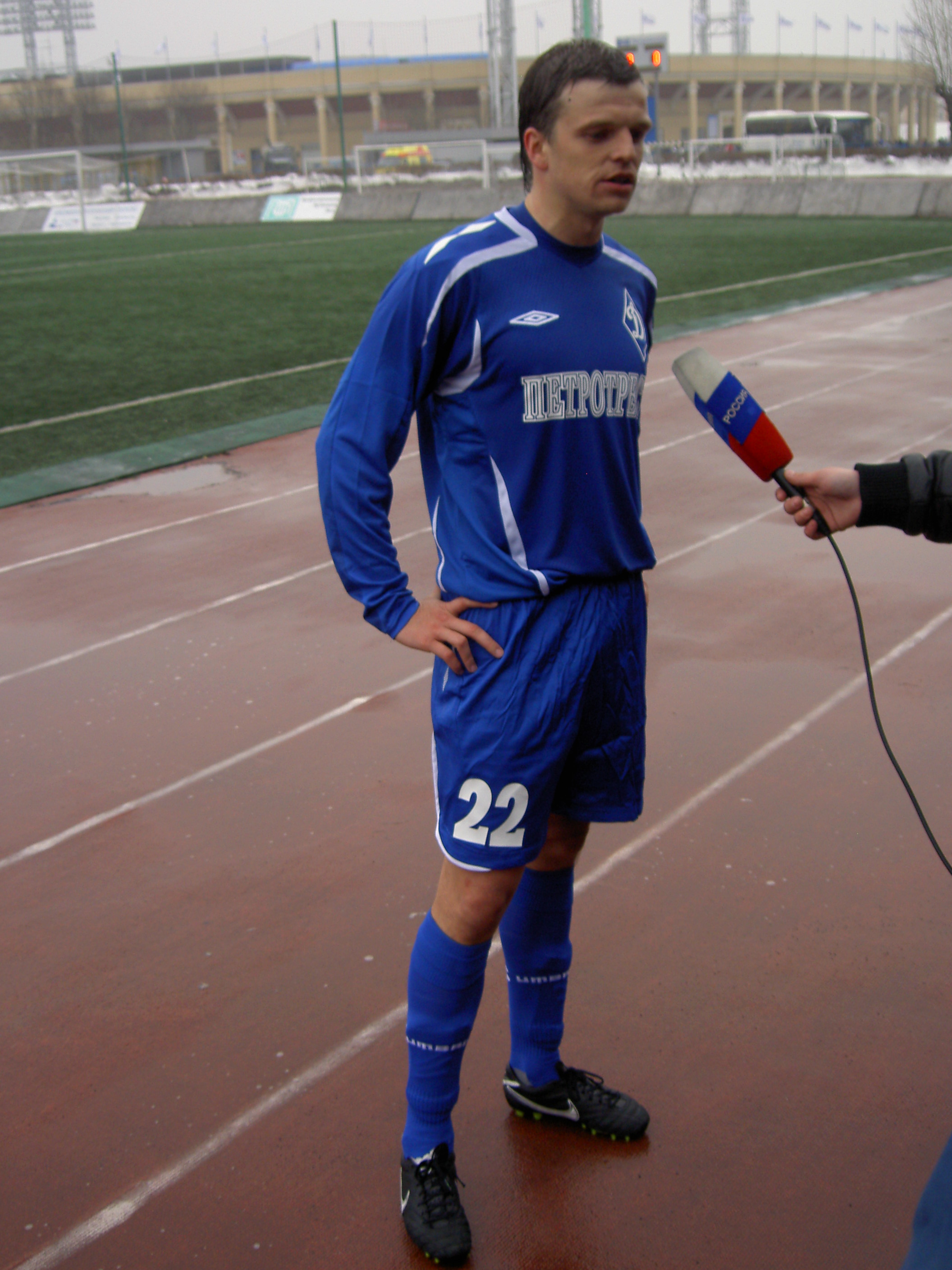 Lobov Konstantin Yurevich